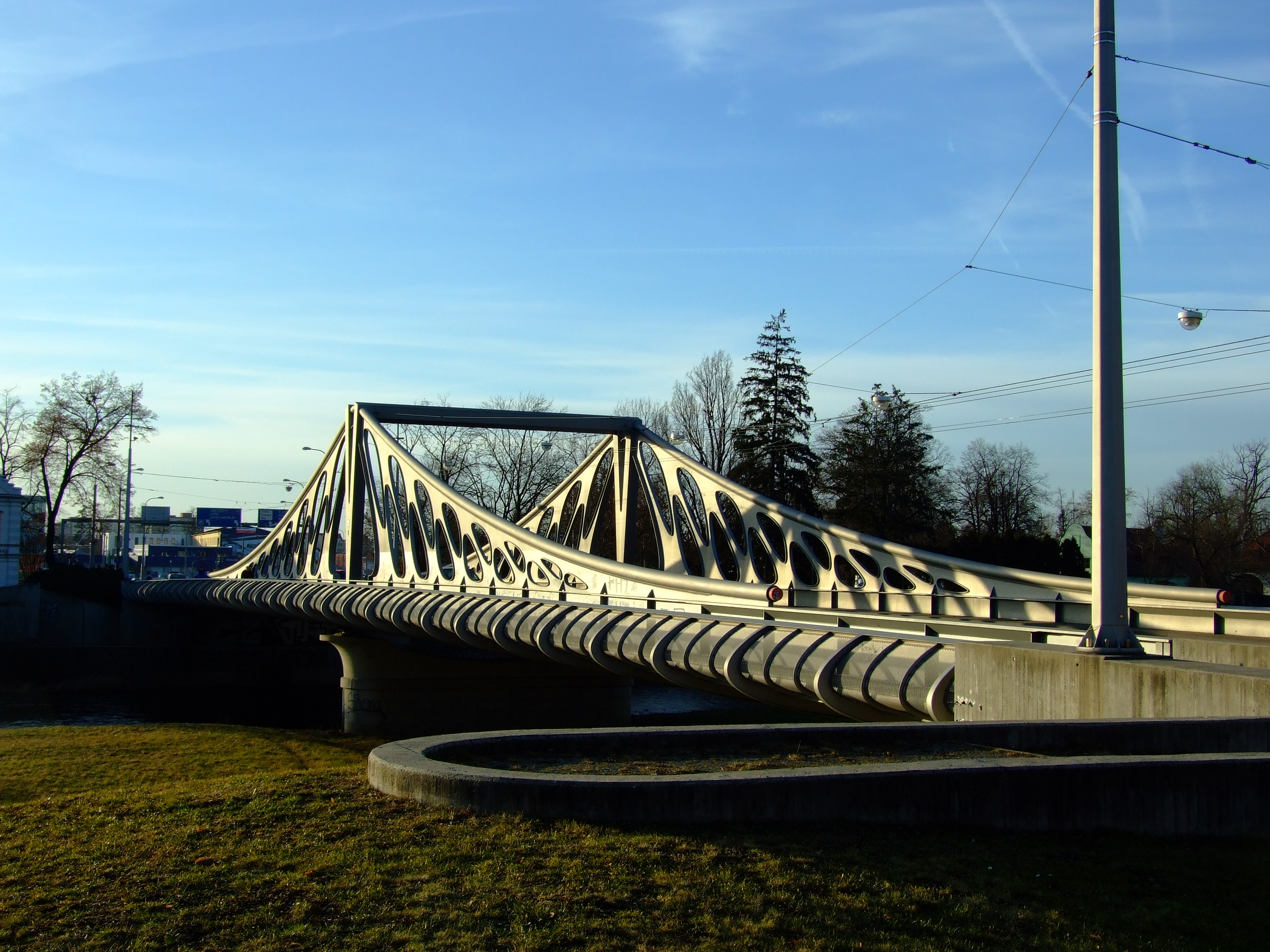 Bridge Dlouhý most in České Budějovice, CZ